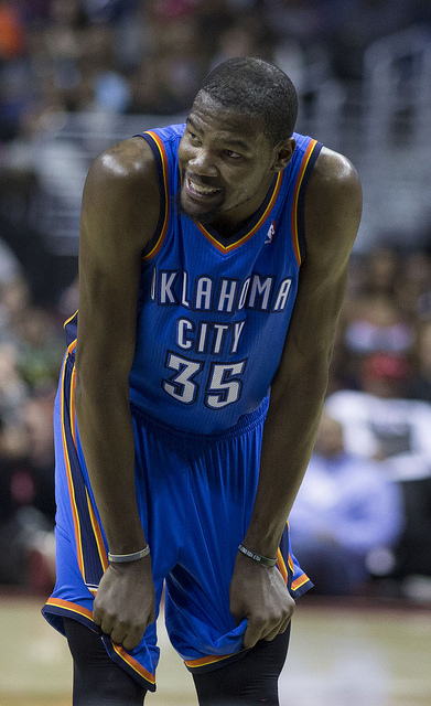 Kevin Durant Free Throw OKC vs Wizard 2014 February